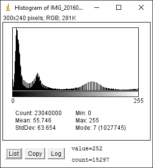 Histograma de imagem após se equalizada. Fonte: Próprio autor